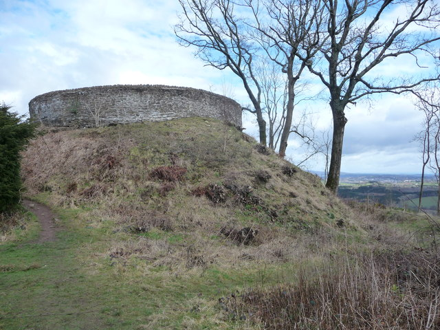 Old motte on Craig Ruperra